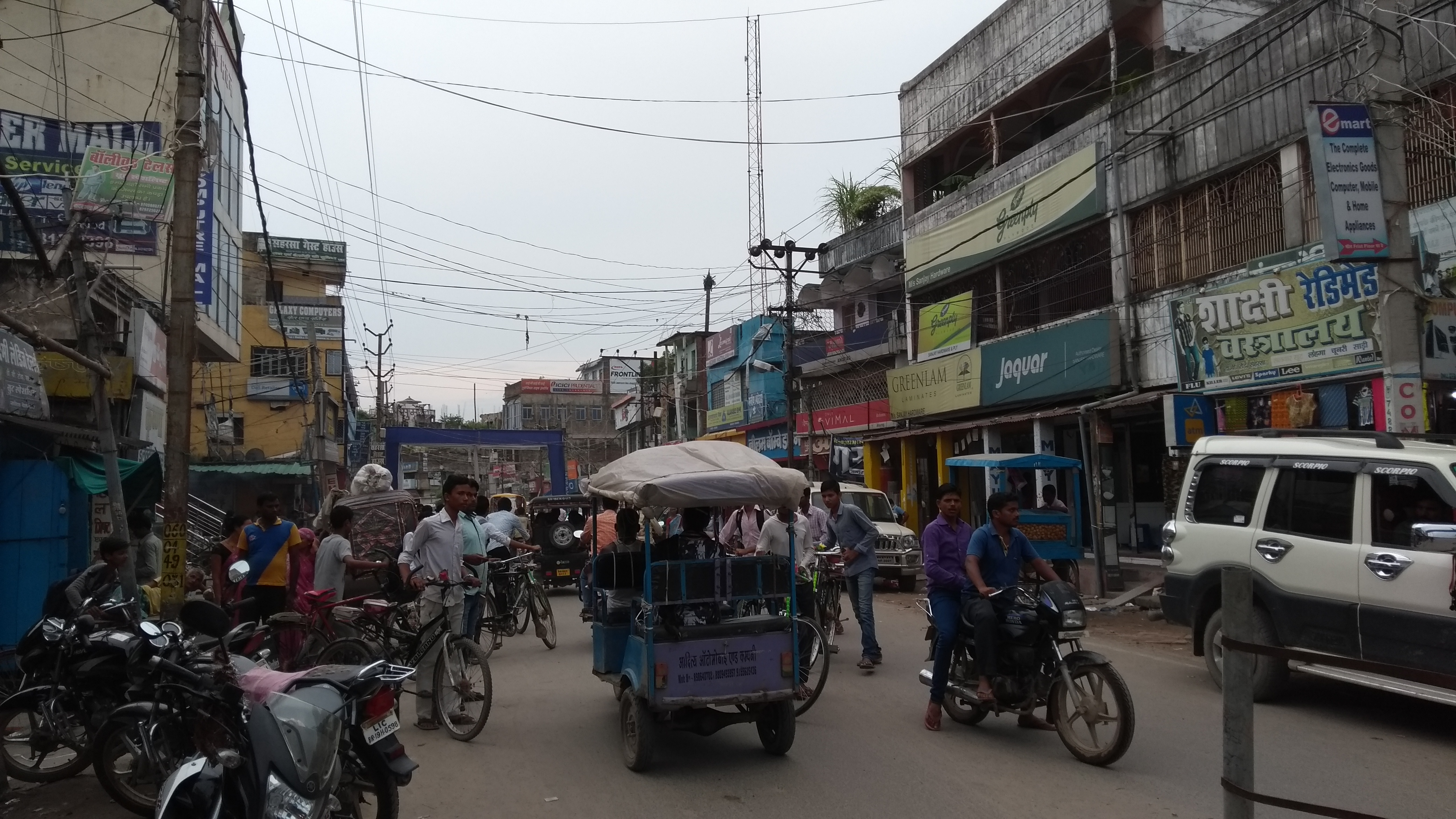 DB Road, Saharsa